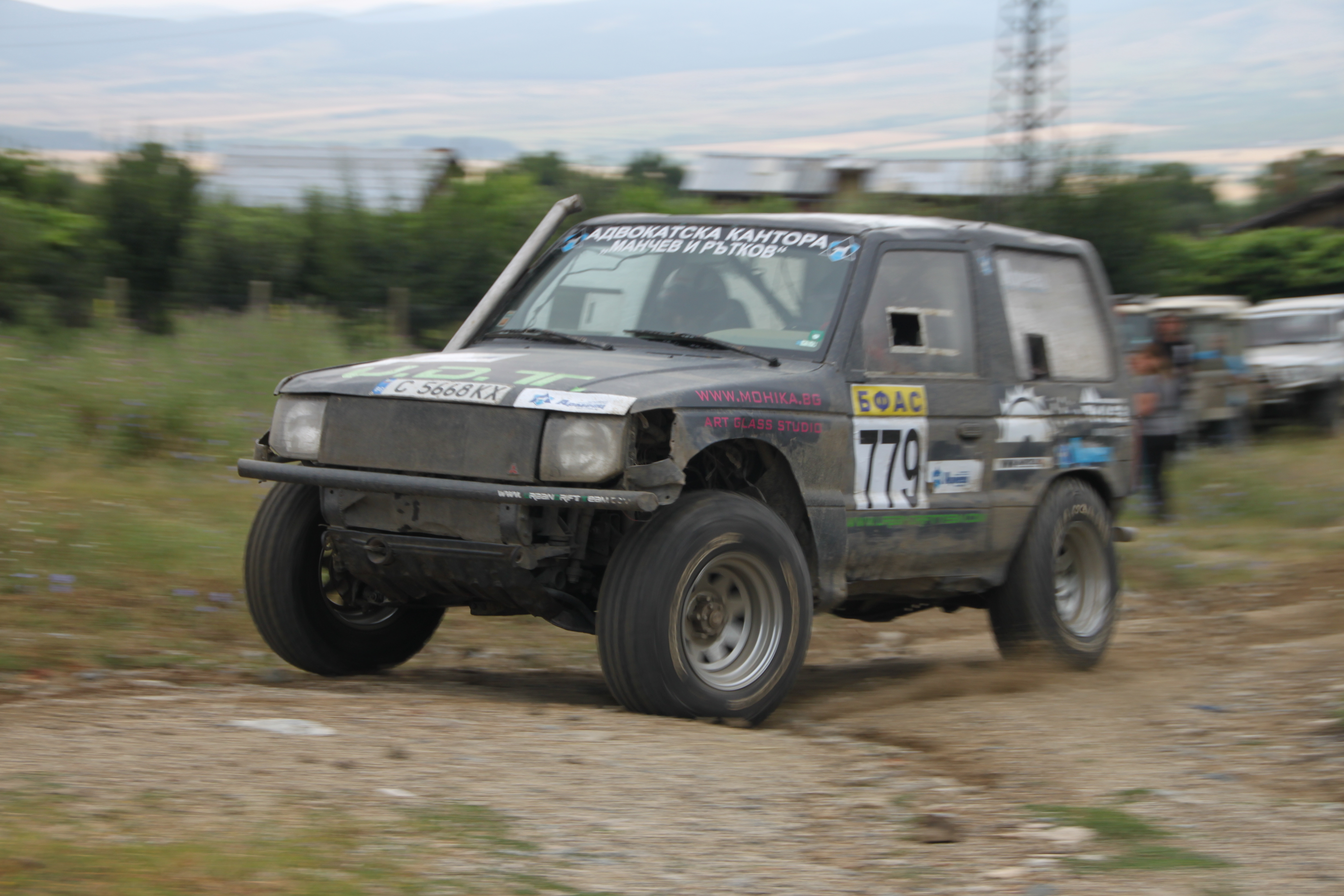 The bulgarian driver Martin Markov on Baja Bulgaria 4x4 in 2010.